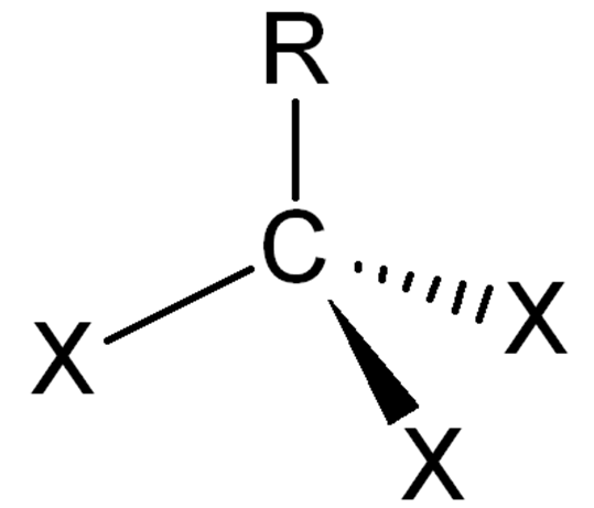 Trihalide (general structure)